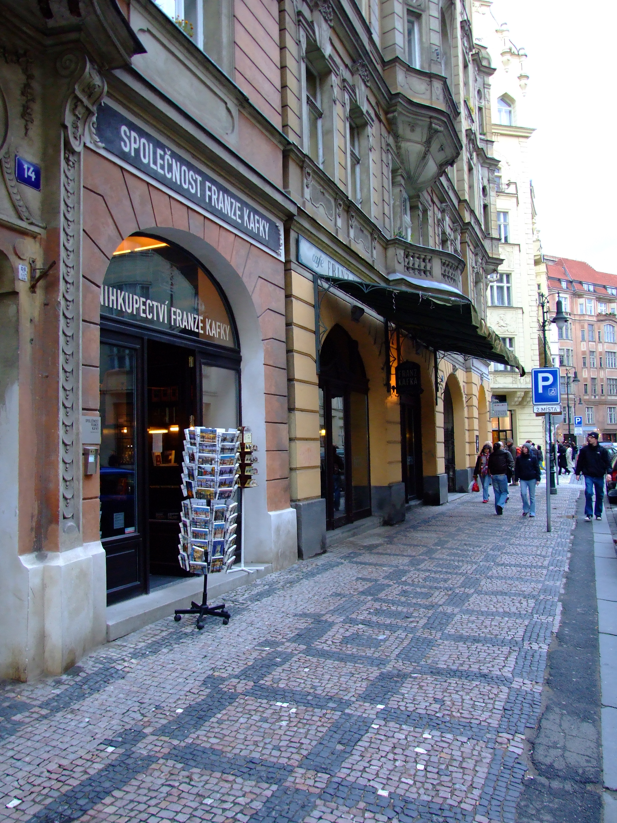 Franz Kafka bookshop in Prague near Old town square